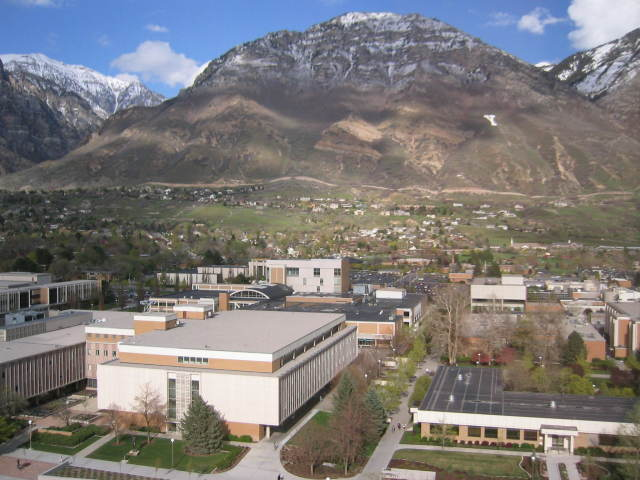 Brigham Young University, Provo, Utah. Y Mountain in the background.BYU